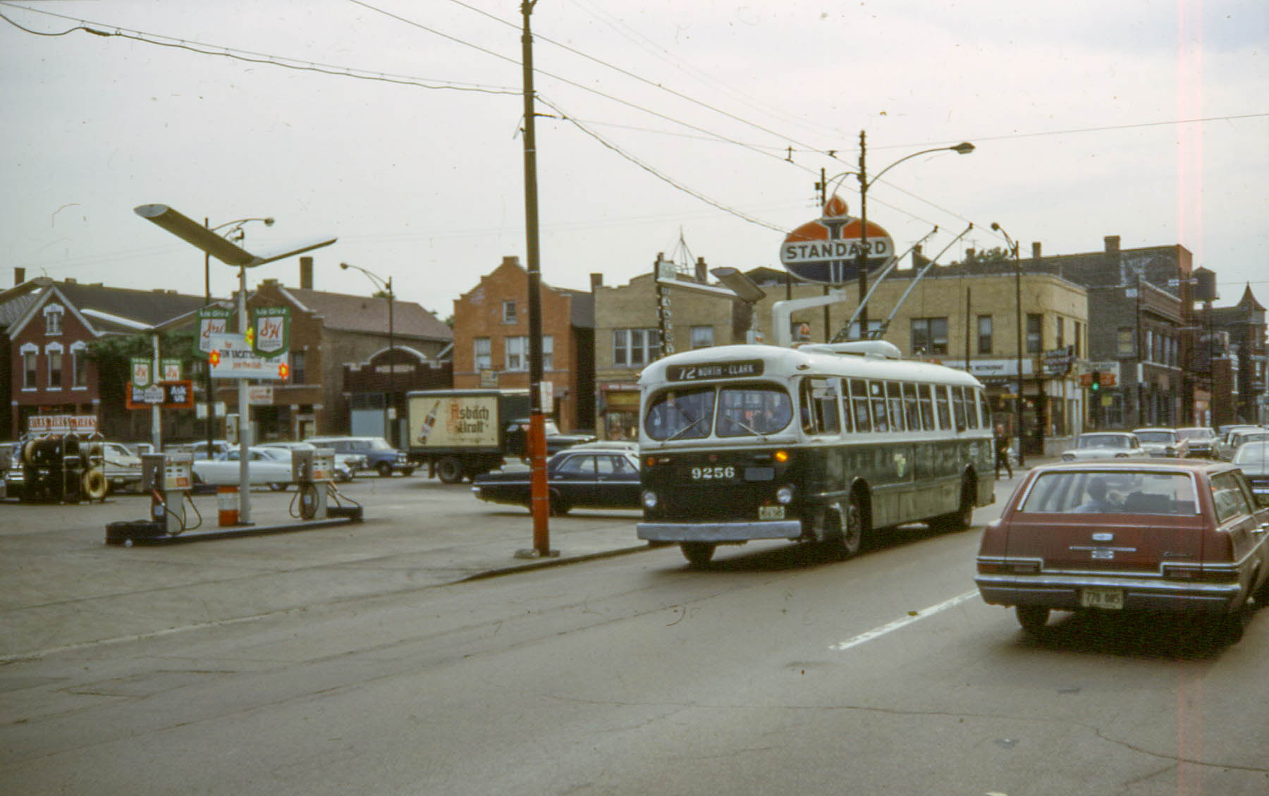 19670614 20 CTA 9256 North Ave. @ Ashland Ave.